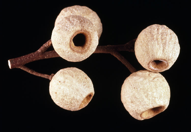 Fruit of Eucalyptus bupestrium